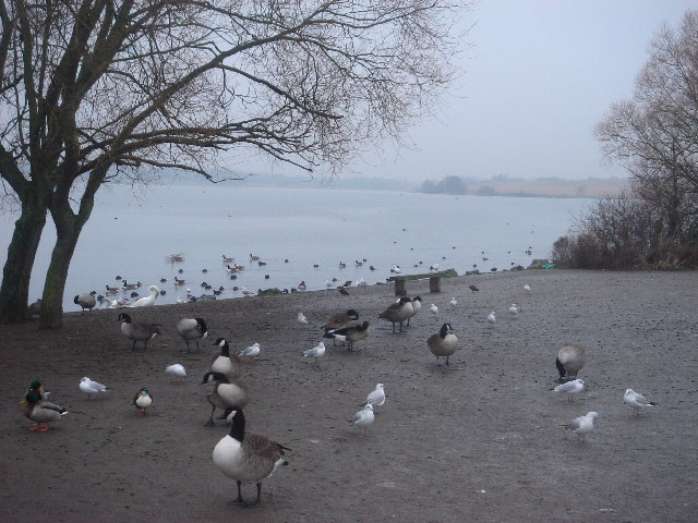 Pennington Flash, Leigh. Taken on a murky Leigh morning just before 9am, showing some of the birdlife on the Flash.